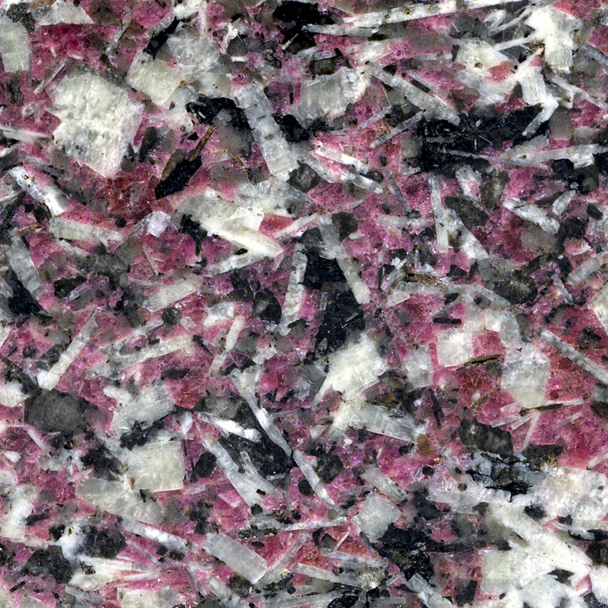 Eudialyte Syenite - polished rock surface - from Brazil